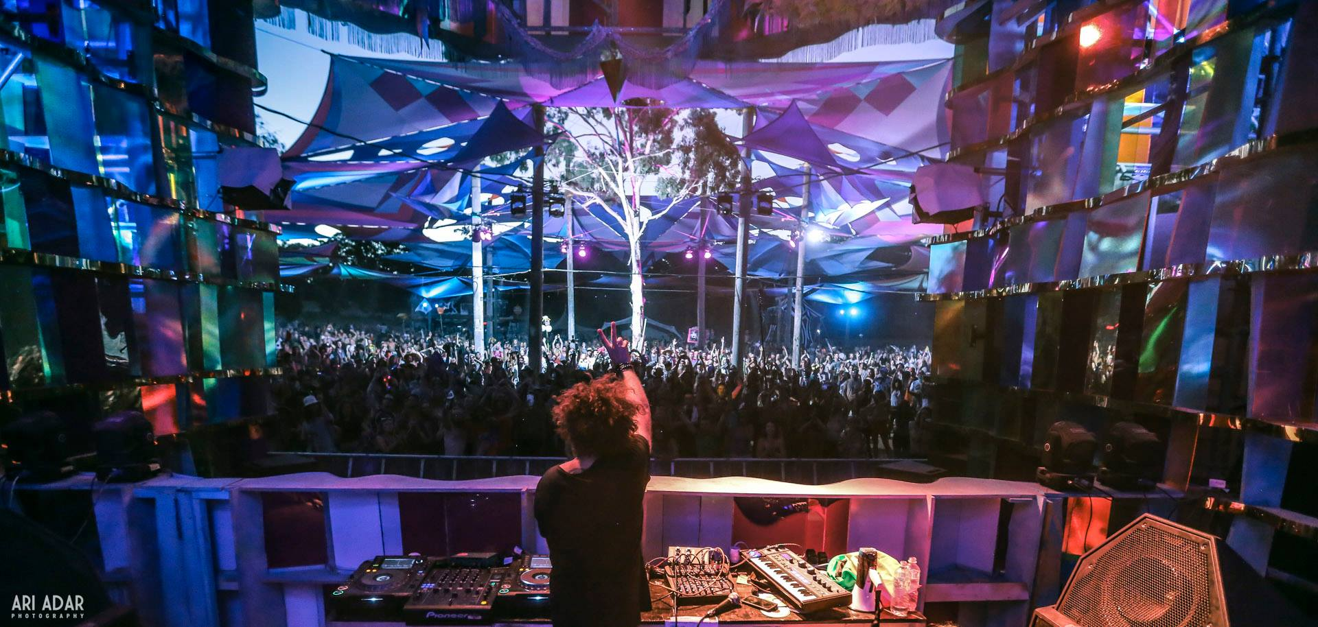 Gaudi, Australian tour 2017 (Rainbow Serpent, Victoria)